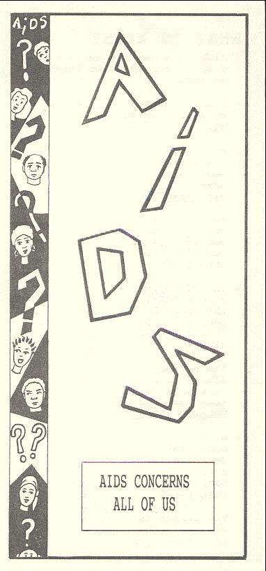 AIDS information leaflet from Zimbabwe